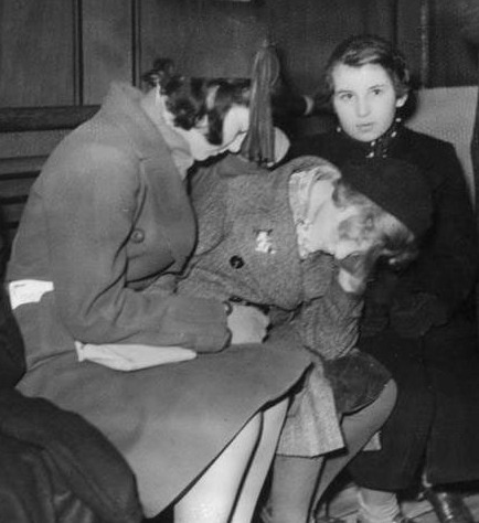 First Batch of Refugee children arrive in England from Germany. More than 200 boys and girls between 12 and 17 years aof age, the first batch of young Jewish refugees from Germany for whom new homes have been promised in Britain, arrived at Harwich from the Hook of Holland an then went to a holiday camp at Dovercourt, near Harwich, where they are to be accomodated for two or three weeks. The children, who are to be supported by voluntary contributions and not public funds, will be sheltered by British families, educated and taught trades and will then emigrate to British possessions. The party of children is drawn mainly from Berlin and Hamburg. Hospitality for 5.000 children refugees is planned. Photo shows .- Young refugees tired out on their arrival at Harwich (Essex) in the early morning. AB December 2nd 1938 PN.r. C. Planet News Ltd., London ADN-ZB/Archiv Großbritannien 1938: Jüdische deutsche Flüchtlingskinder im Alter von 12 bis 17 Jahren sind, aus Hook in Holland kommend, am frühen Morgen in Harwich (Essex) eingetroffen. Für zwei bis drei Wochen werden 5000 Jungen und Mädchen, die vorwiegend aus Berlin und Hamburg geflohen waren, im Ferienlager von Dovercourt, in der Nähe Harwichs, eine Unterkunft finden.